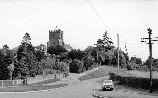 Helions Bumpstead, Eastward view to St Andrew Church.